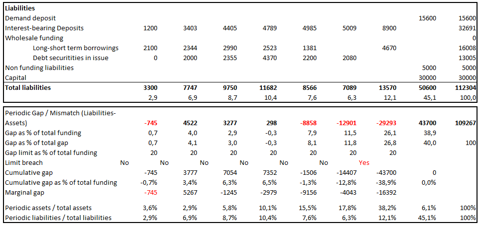 This report summarises the total funding requirement of each business lines